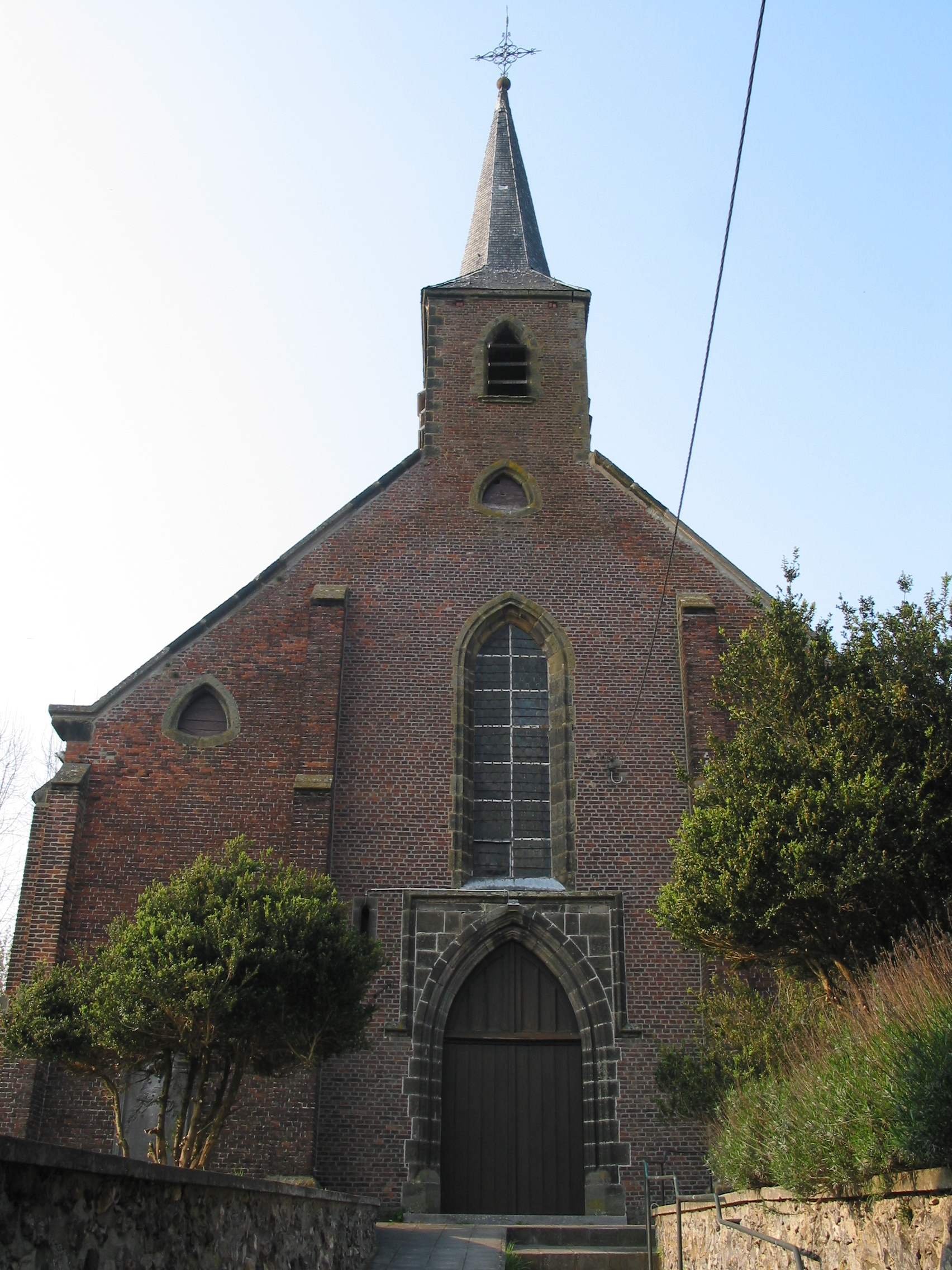 Ciply (Belgium), the St. Waudru church (1856).